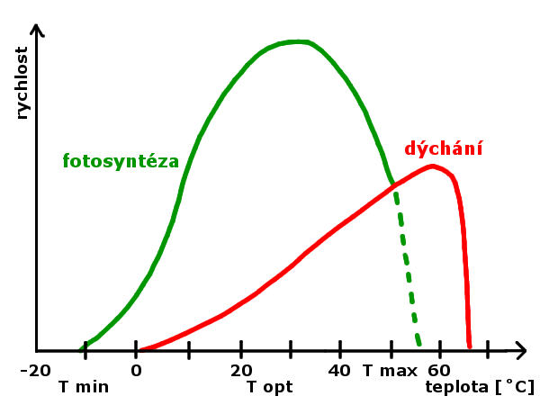 Photosynthesis and respiration - temperature and light graph